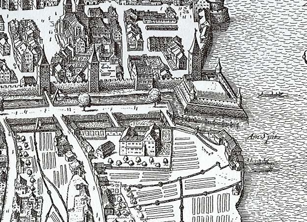 View of the city of Zürich on an engraving ov Matthäus Merian, 1638 after the xylography by Jos Murer (1576) resp. Ludwig Fry